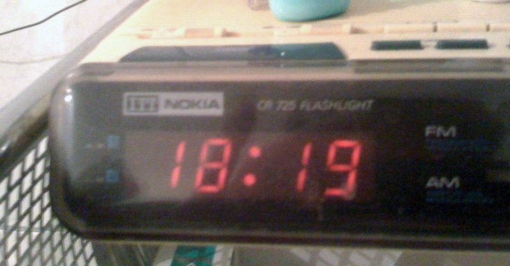 Nokia Radio Clock